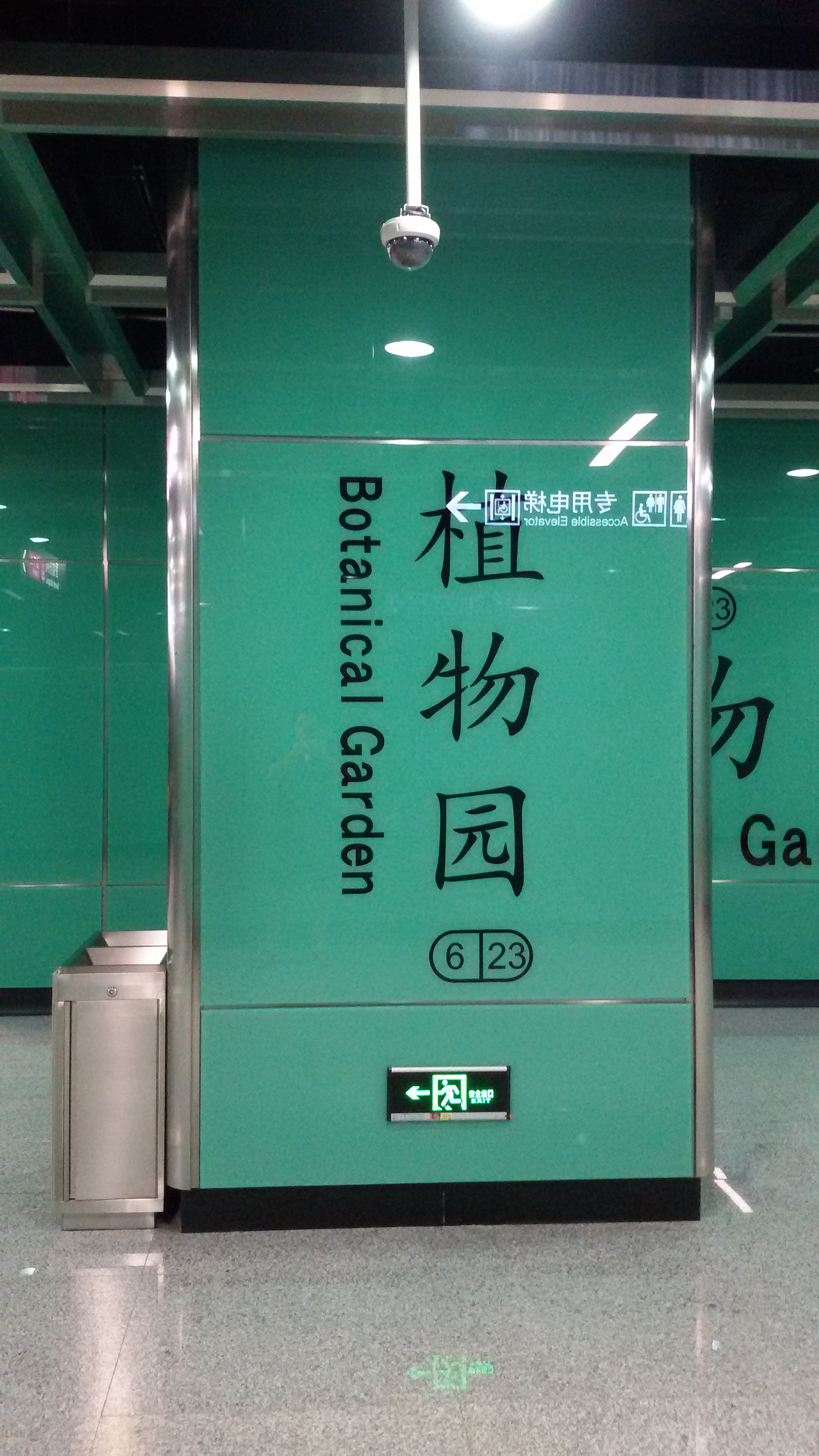 WORD on PILLAR for Botanical Garden Station in Guangzhou Metro